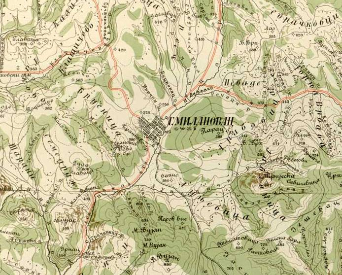 Derivated map of town Gornji Milanovac. Map taken from: Digital copies of the Đeneralštabna map of Serbia. The map is printed in Belgrade, the 1894th , in 94 sections, with a topographic key and in scale 1:75.000. This is the first special military map of Serbia was published in the country.